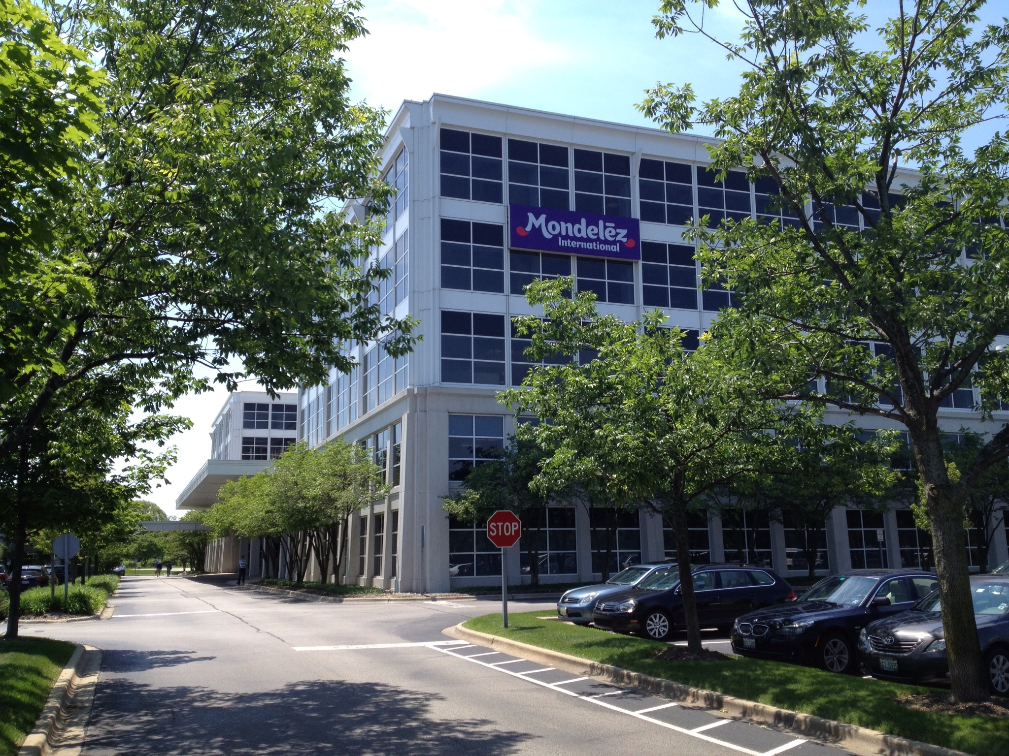 Photograph of Mondelēz International Headquarters, Three Parkway North Deerfield, IL 60015